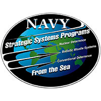 Logo used in conjunction with US Navy operations involving weapons system testing.